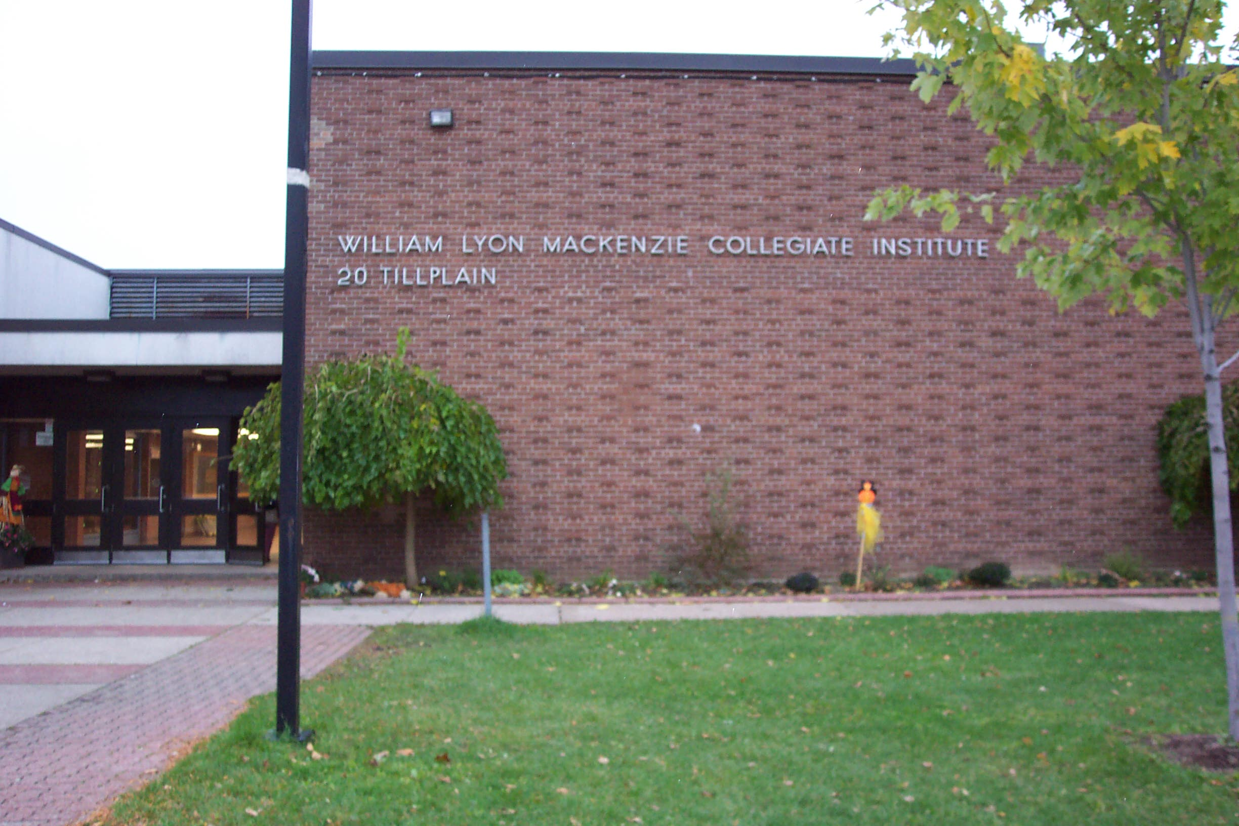 William Lyon Mackenzie Collegiate Institute, Toronto. Sandra's exit for lunch.